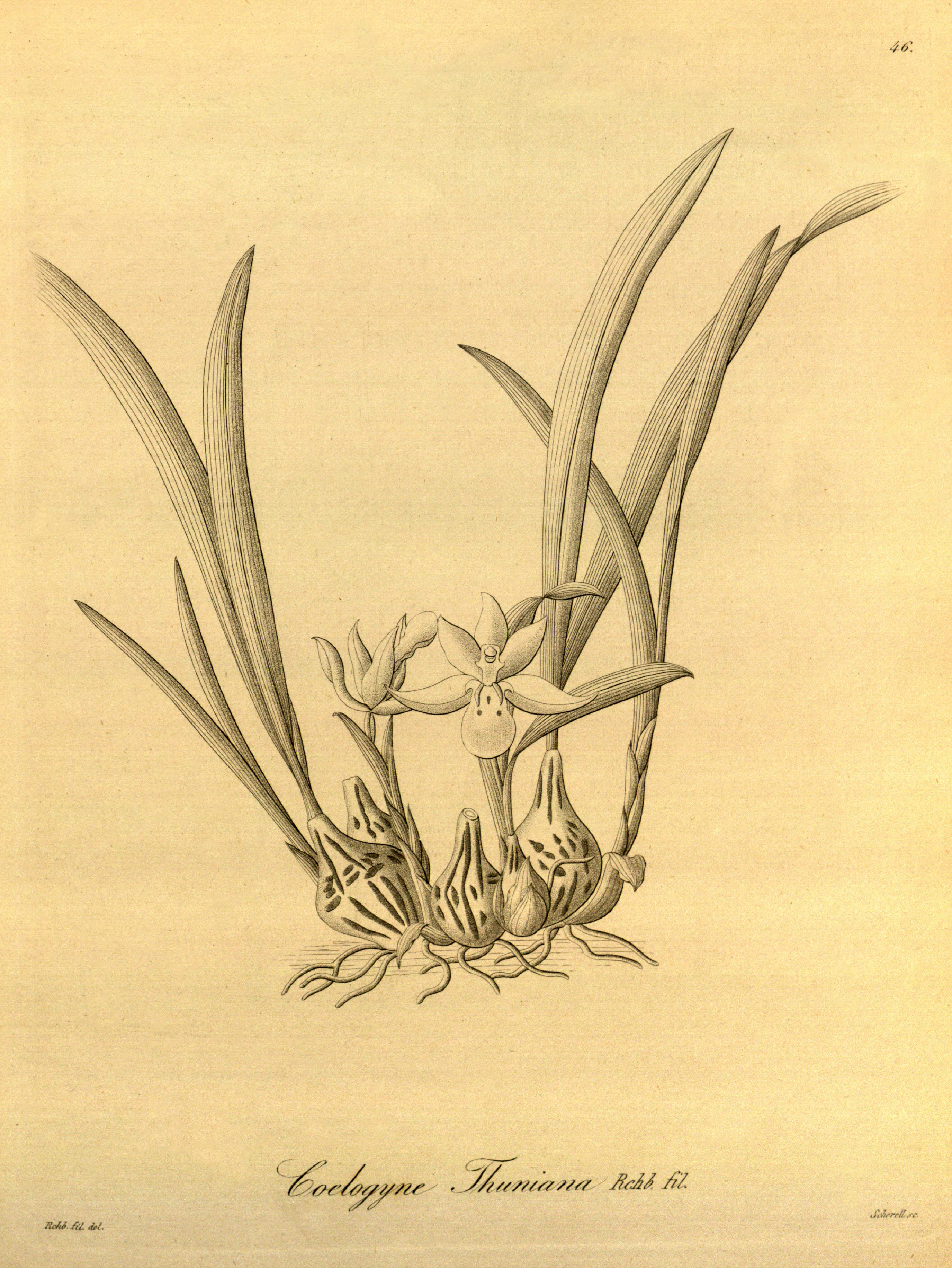 Illustration of: Panisea uniflora (as syn. Coelogyne thuniana)